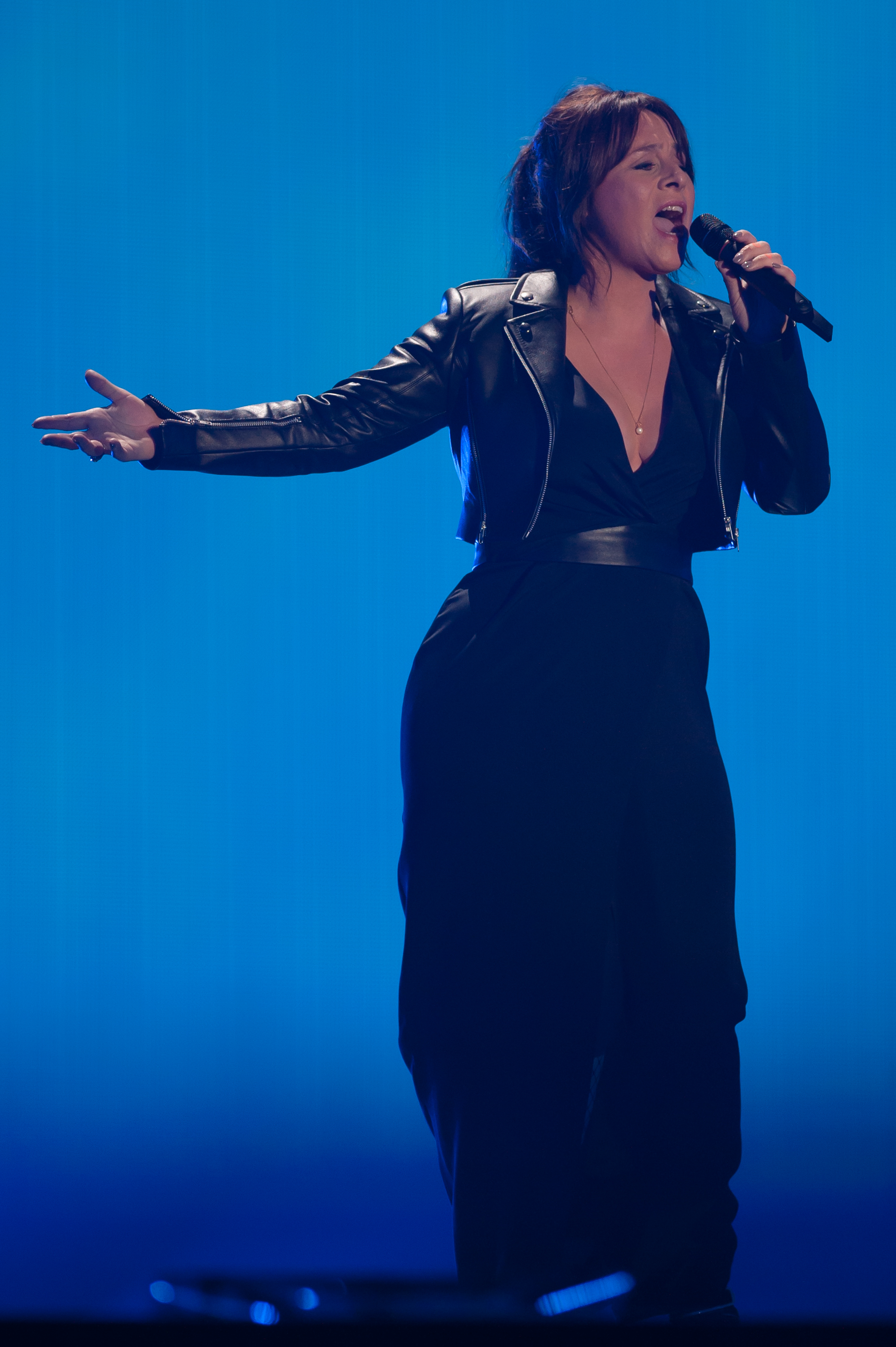 Eurovision Song Contest Vienna 2015: Trijntje Oosterhuis